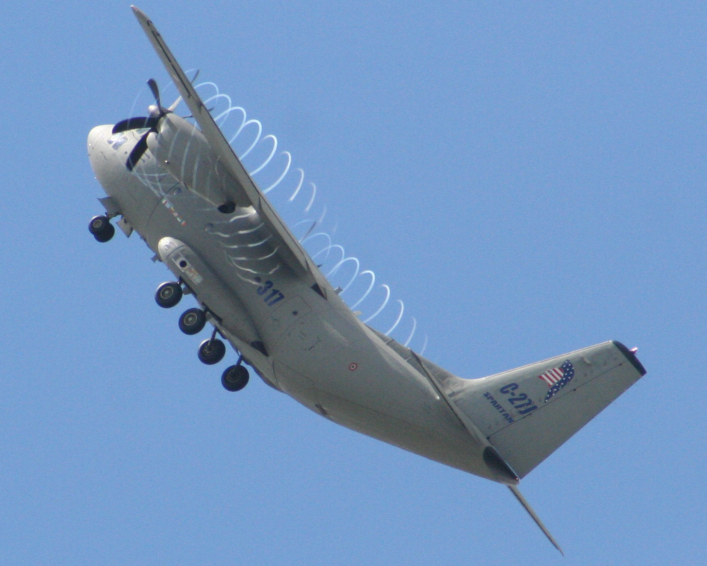 The C27 making condensation spirals.